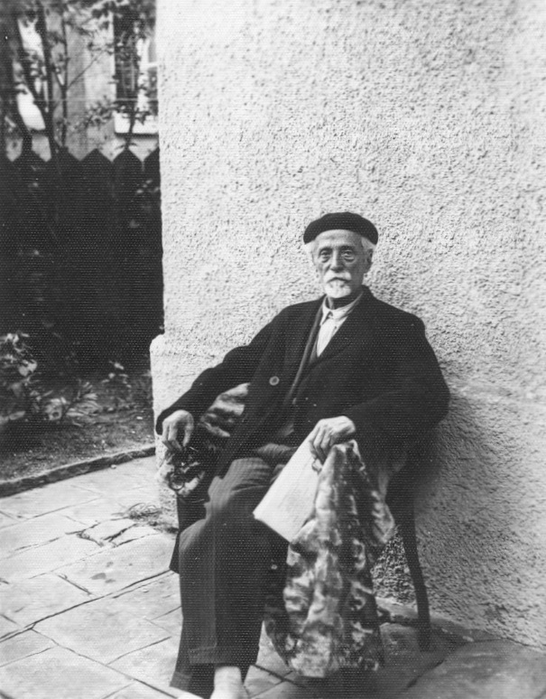 Bulgarian политик Yanko Sakazov in his homeyard, 1937